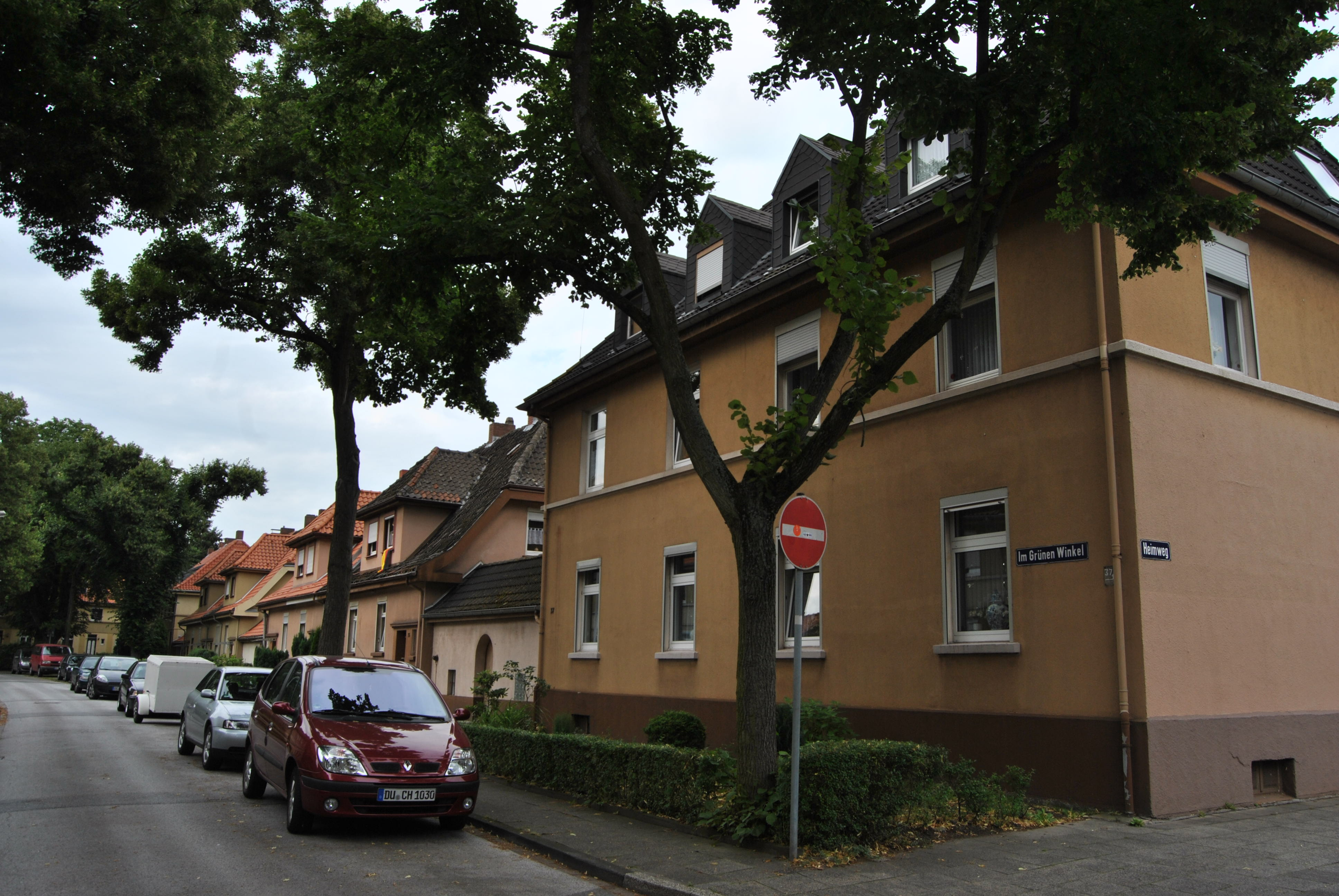 This photograph was taken with a Nikon D3000 This image shows a heritage building in Germany, located in the North Rhine-Westphalian city Duisburg. Wohngebäude (Im grünen Winkel 37) in der Siedlung Wedau - Denkmalliste Duisburg, Teil des Denkmalbereichs Nr. 3 - Objektkoordinaten: 51.23'30.9"N, 6.47'43.56"E